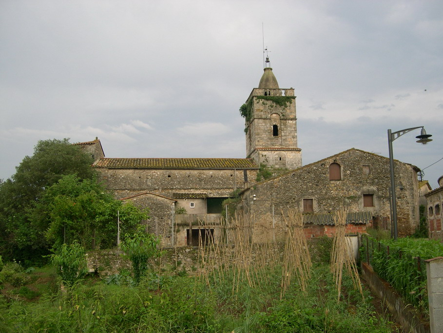 Church of Esponellà (Pla de l'Estany)